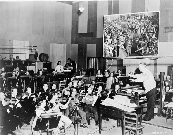 Publicity still showing music for The Wizard of Oz being recorded.